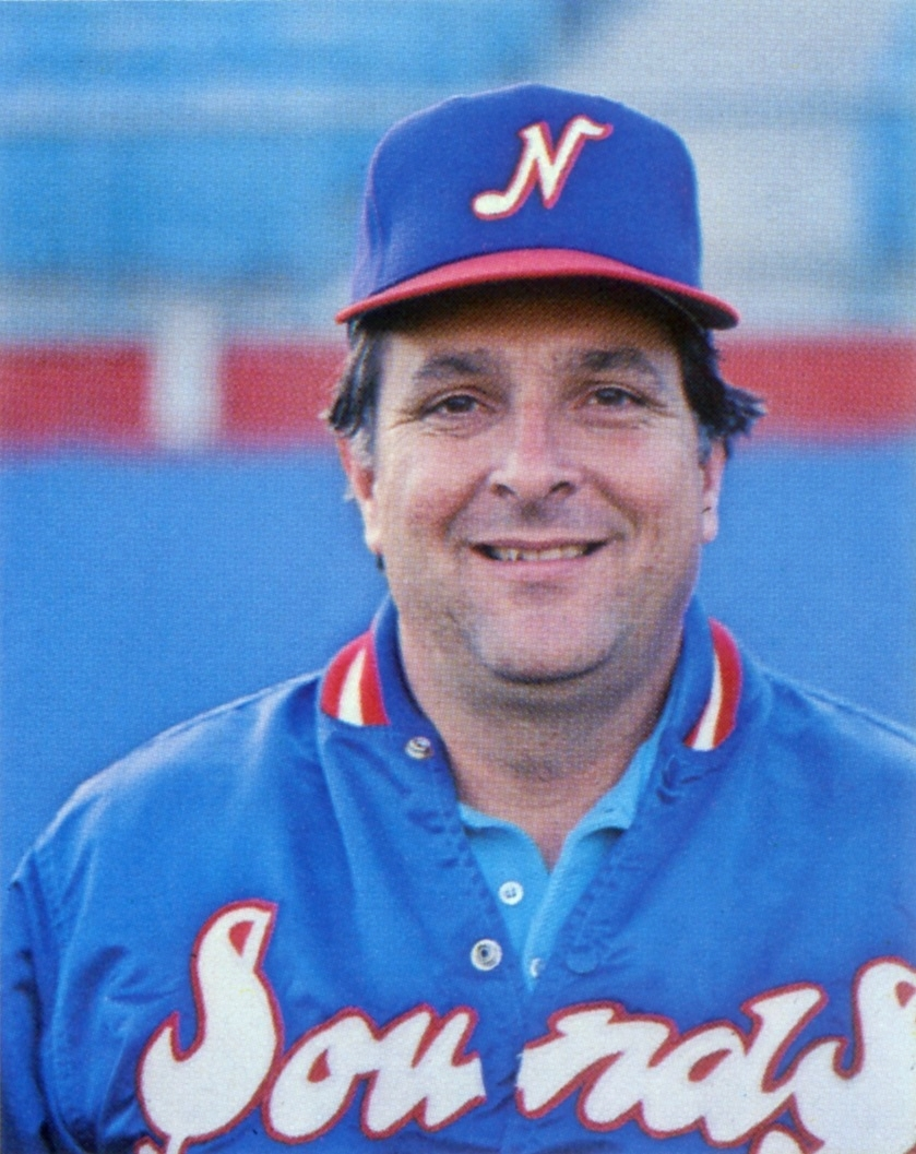 Larry Schmittou, President of the Nashville Sounds Minor League Baseball team in 1979